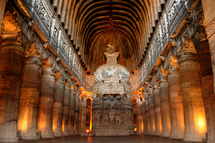 Ajanta Caves